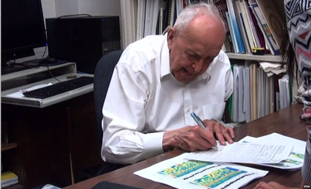 Franz Halberg, aged 93, is again challenging medical orthodoxy by suggesting that cyclical patterns in our blood pressure offer clues about risks to our health. (confirmed to be a work of the Voice of America by the VOA bug in the lower right)